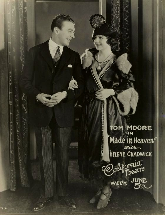 Tom Moore and Helene Chadwick in the American comedy romance film Made in Heaven (1921) - publicity still (cropped).